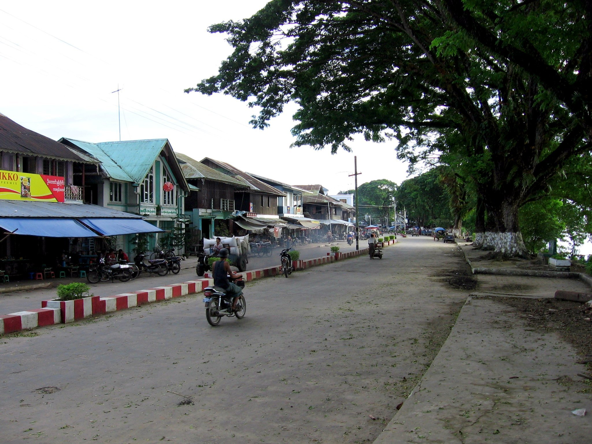 Streets of Bhamo (Myanmar).